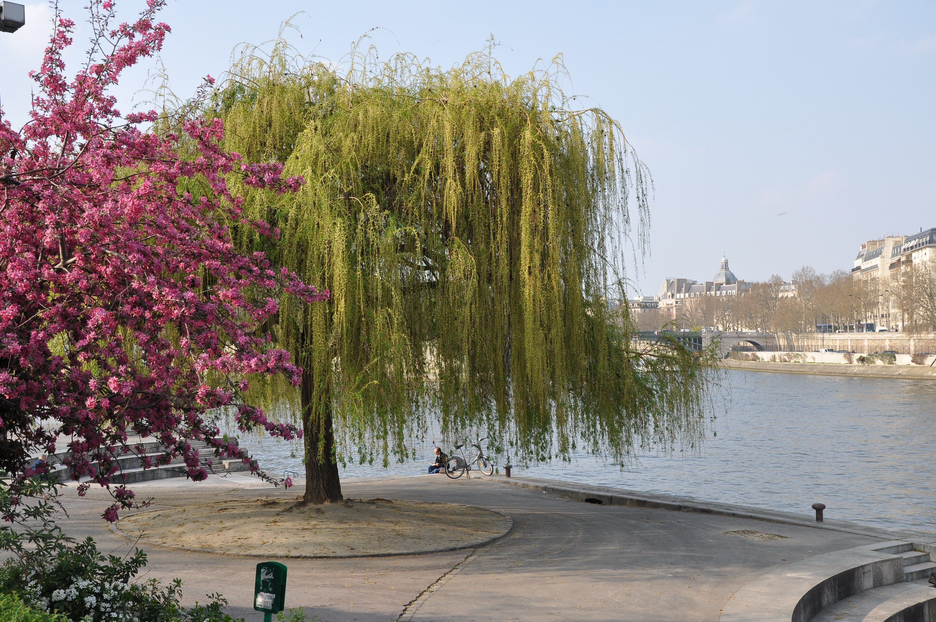 Garden Tino Rossi on the Quai St Bernard in the 5th district of Paris, France.